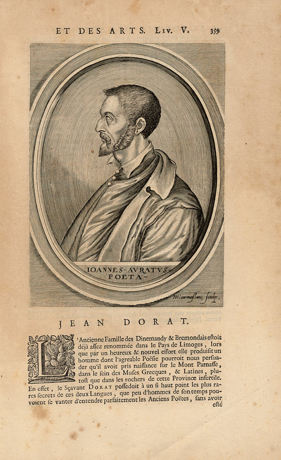 French Author and Scientist